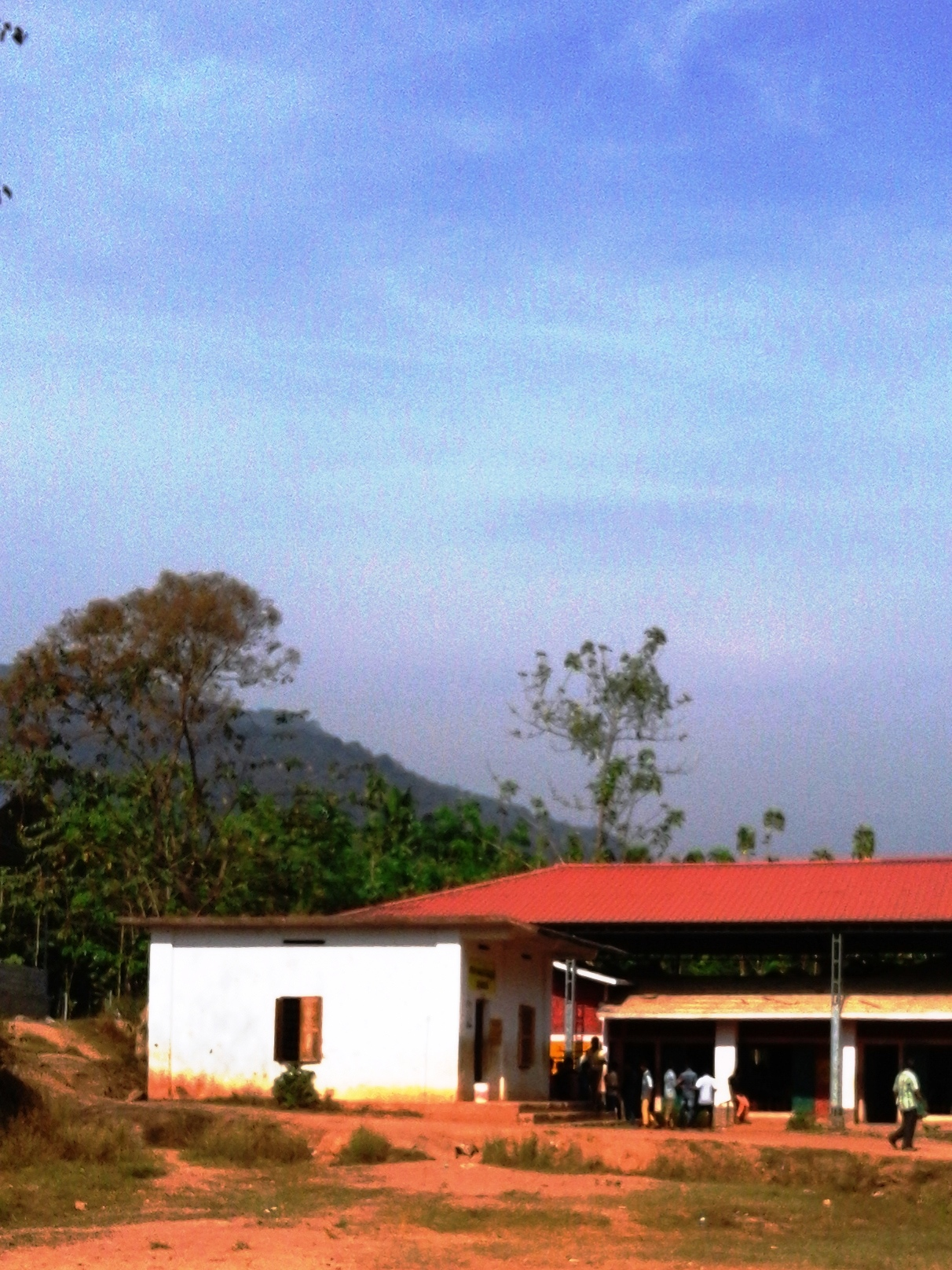 Munderi village, Pothukallu Town, Nilambur city, Malappuram District, Kerala province, India.